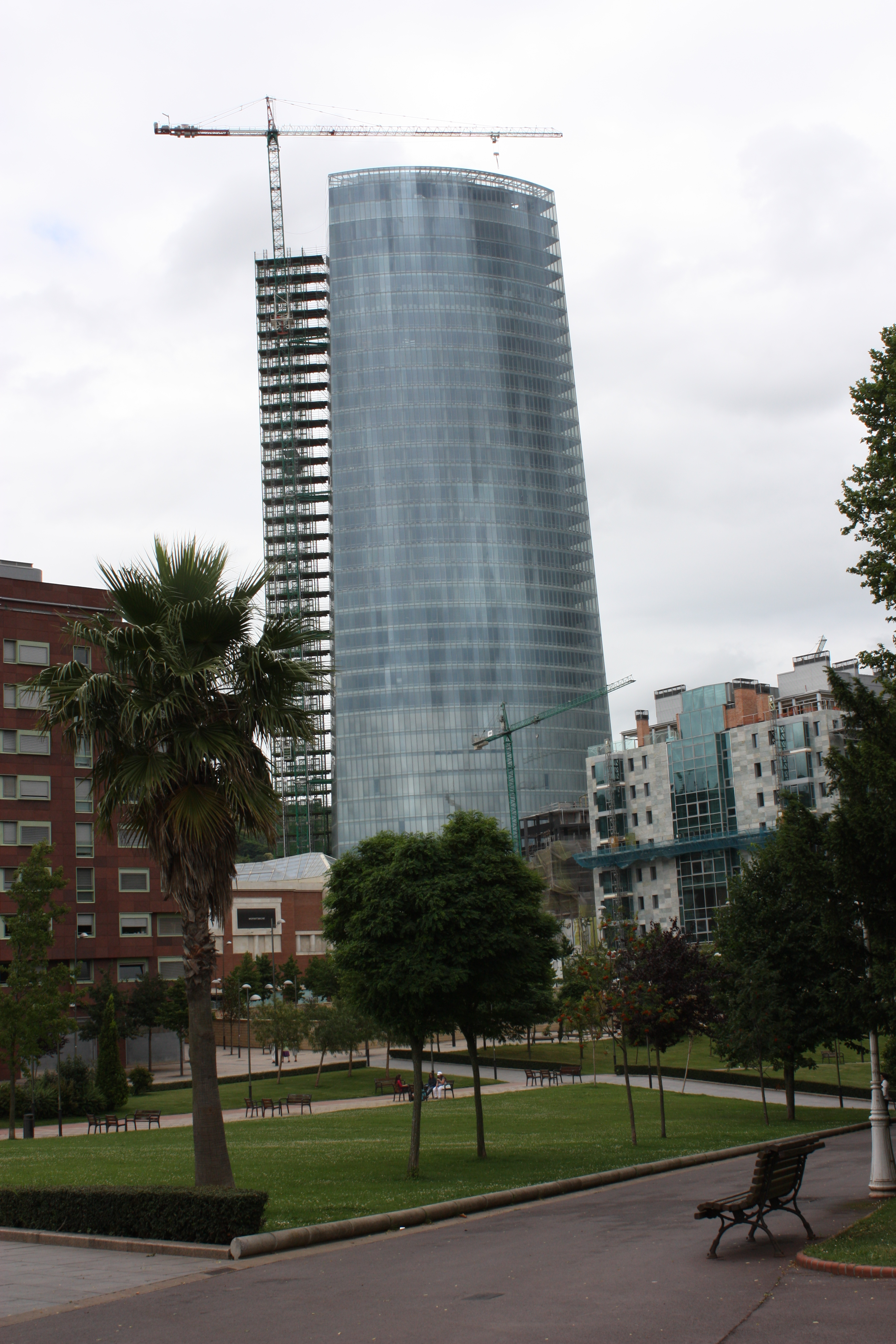 Doña Casilda Iturrizar Park, Bilbao, Biscay, Spain, July 2010 (overshadowed by the Iberdrola Tower)